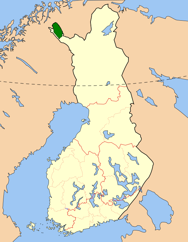 Käsivarsi Wilderness Area Location